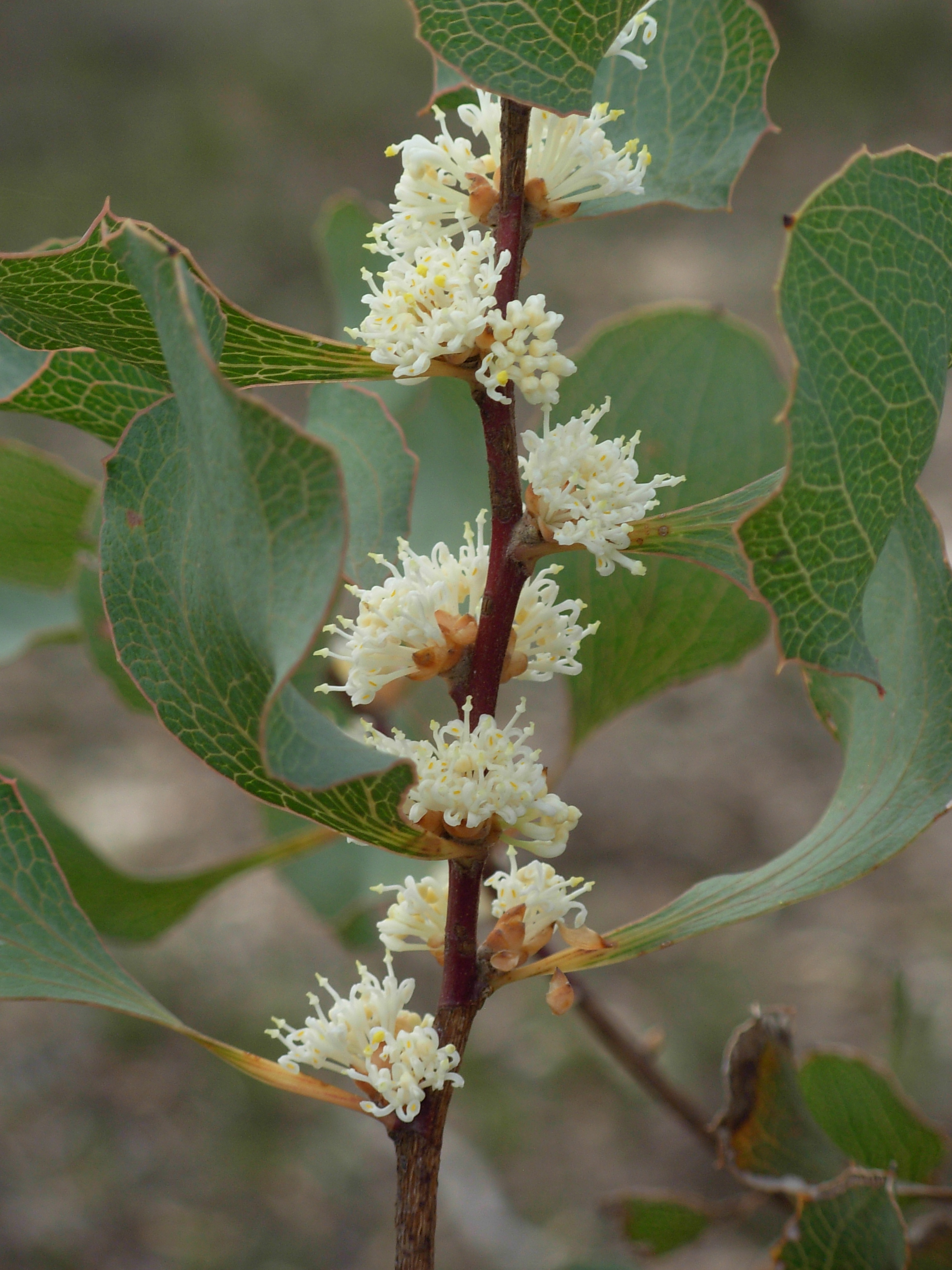 Hakea cristata (Snail Hakea) at end of flowering season (Cristata is between June-August)